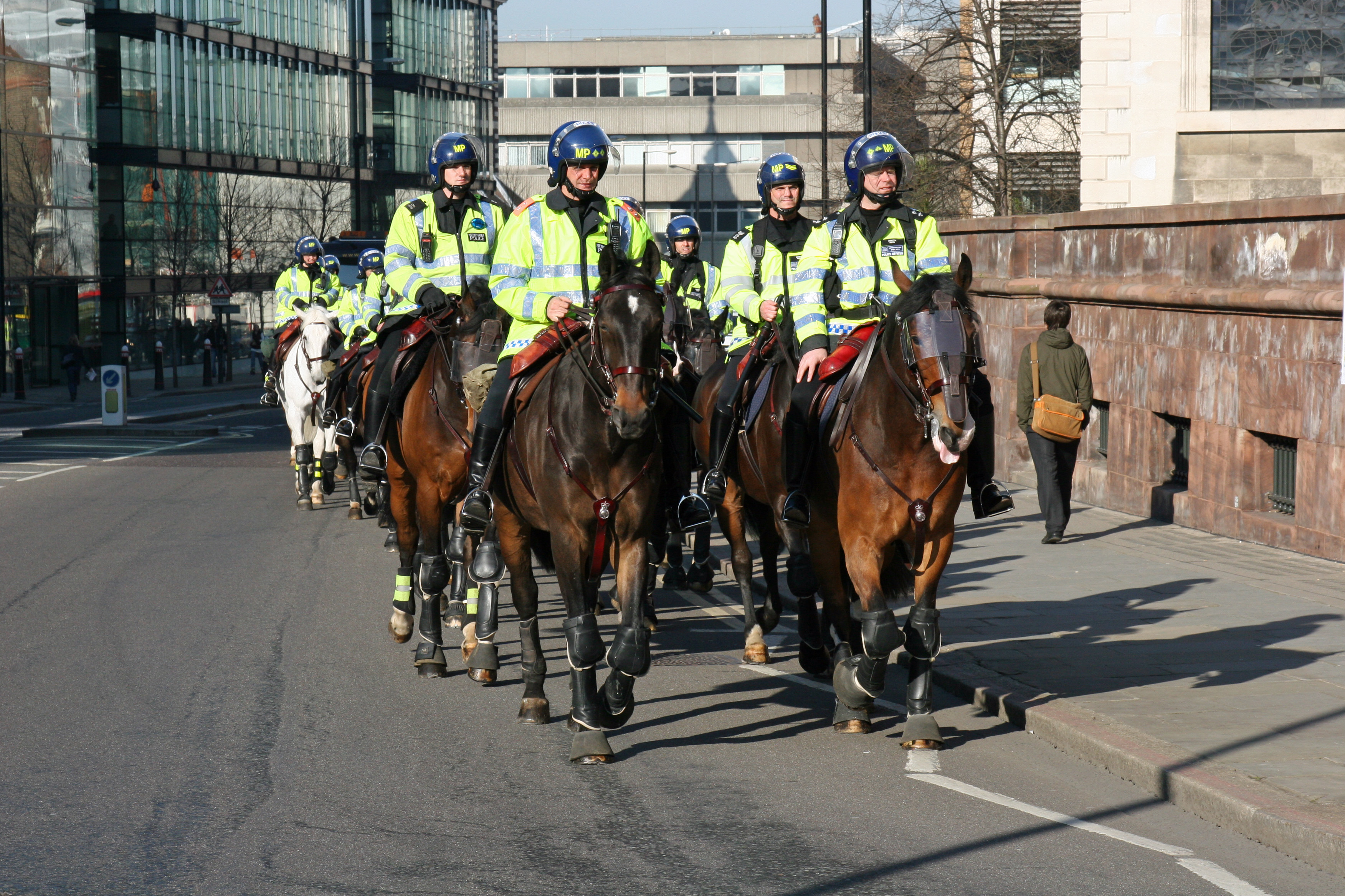 Mounted police at the G20 protests in London, 1 April 2009.